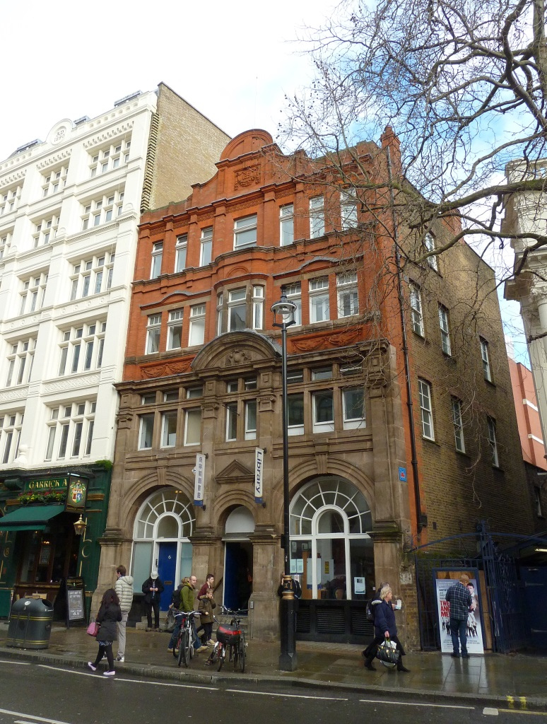 Charing Cross Library, on Charing Cross road, just opposite Leicester Square